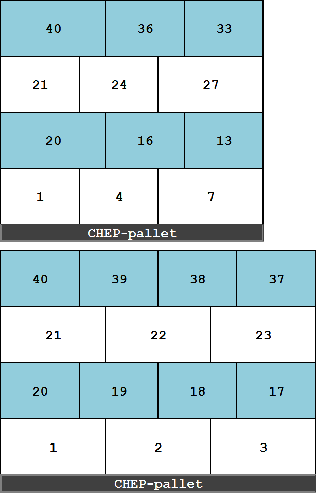 Packaging of standardized beer bottle crates on CHEP pallet (side view and frontal view)